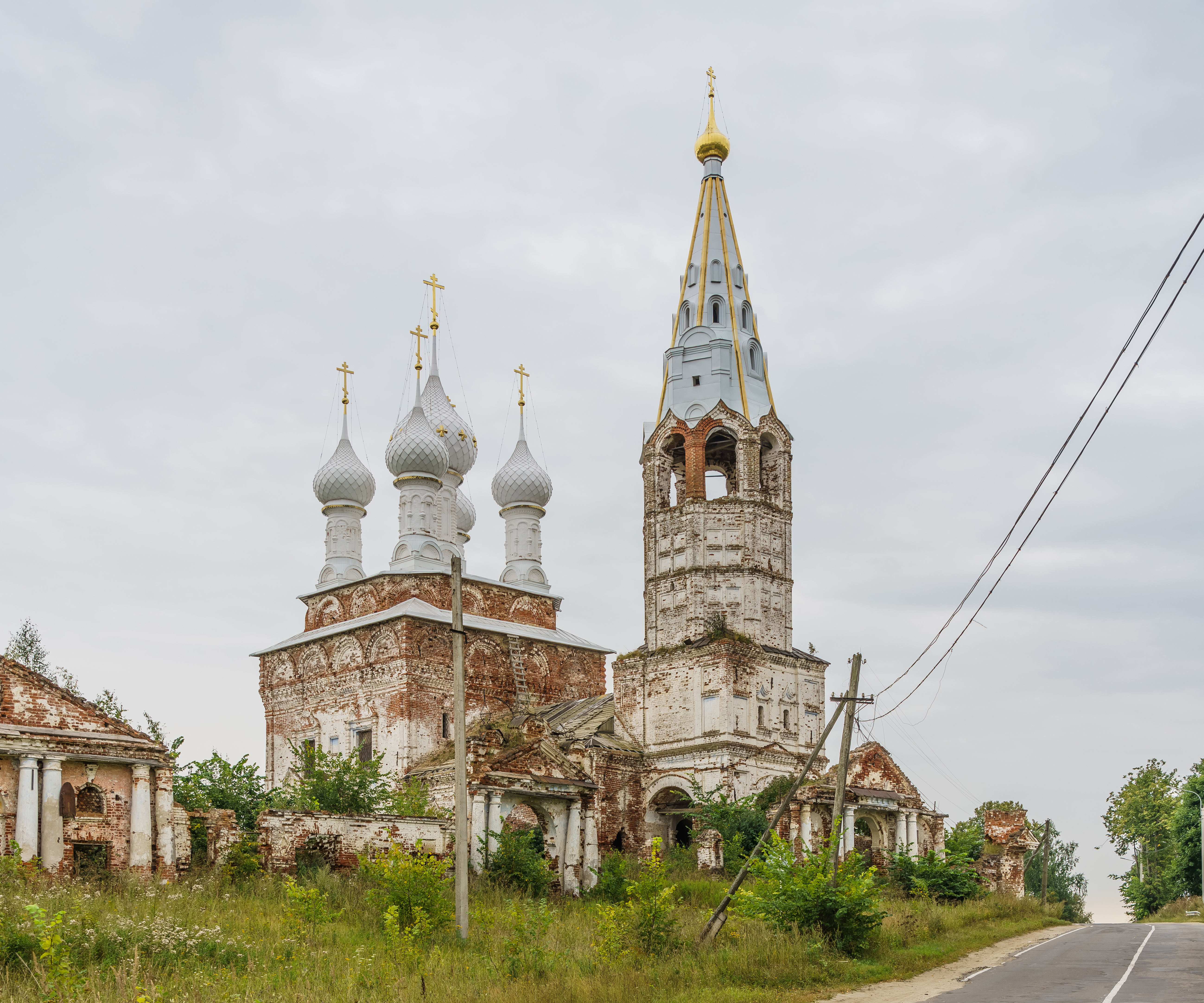 Ensemble of Intercession Church in Dunilovo, Ivanovo Oblast, Russia